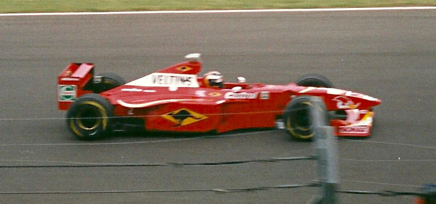 Formula 1 British Grand Prix 1998, Heinz-Harald Frentzen, Williams-Mecachrome FW20.